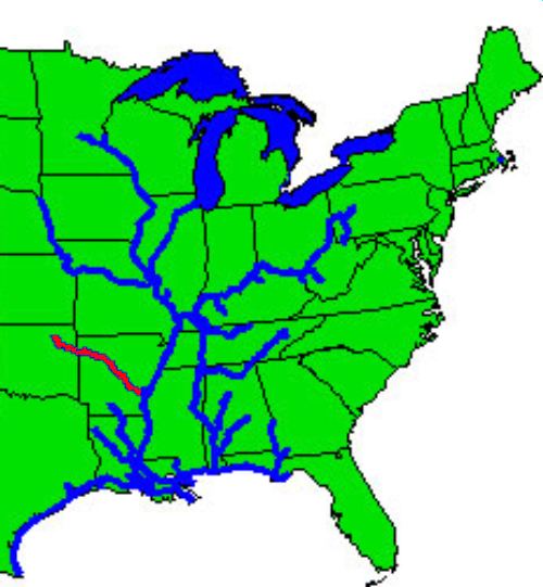 Image:Inland navigation system.png with highlighting to show Kerr-McClellan/Arkansas river portion of system.